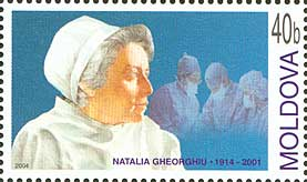 Stamp of Moldova